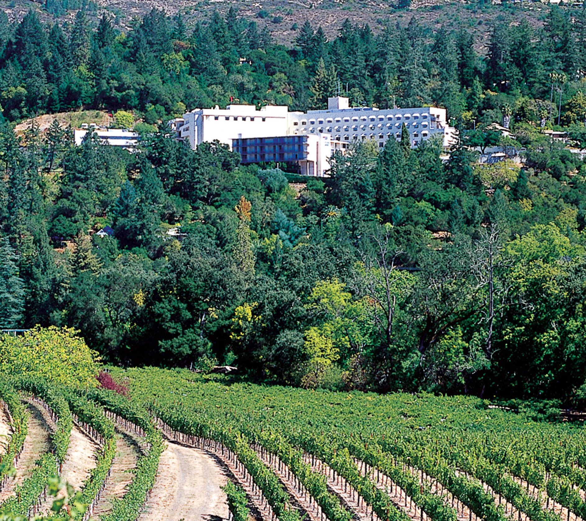 St. Helena Hospital view from the west